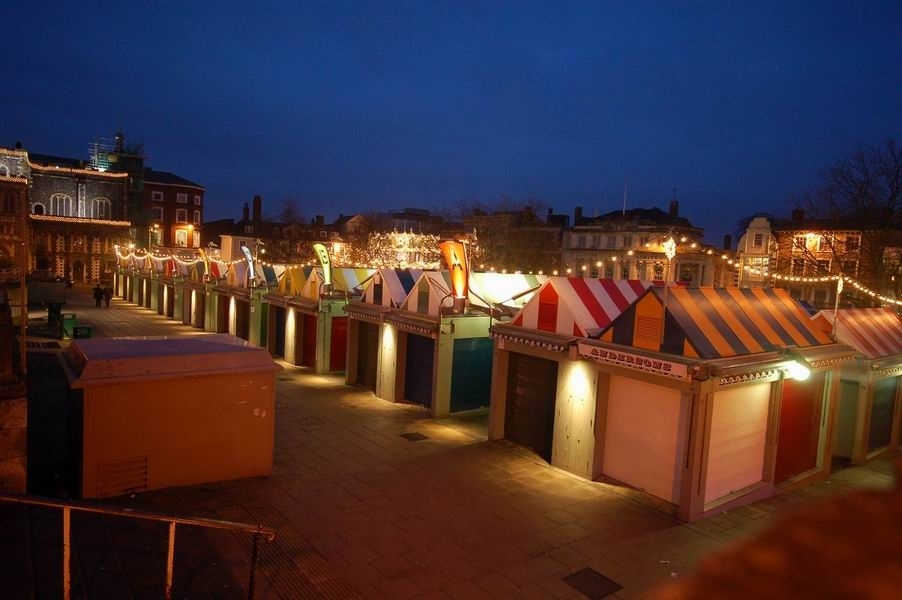 Norwich Market by night, United Kingdom